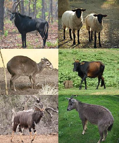 Images of a few members of the family Bovidae (clockwise from top left) - Sable antelope, sheep, zebu, Chinese goral, nyala and Maxwell's duiker.